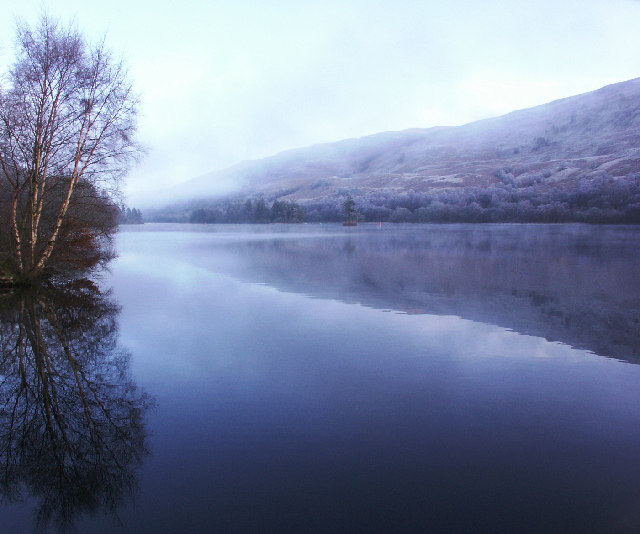 Loch Oich, the highest loch in the Great Glen geological fault.